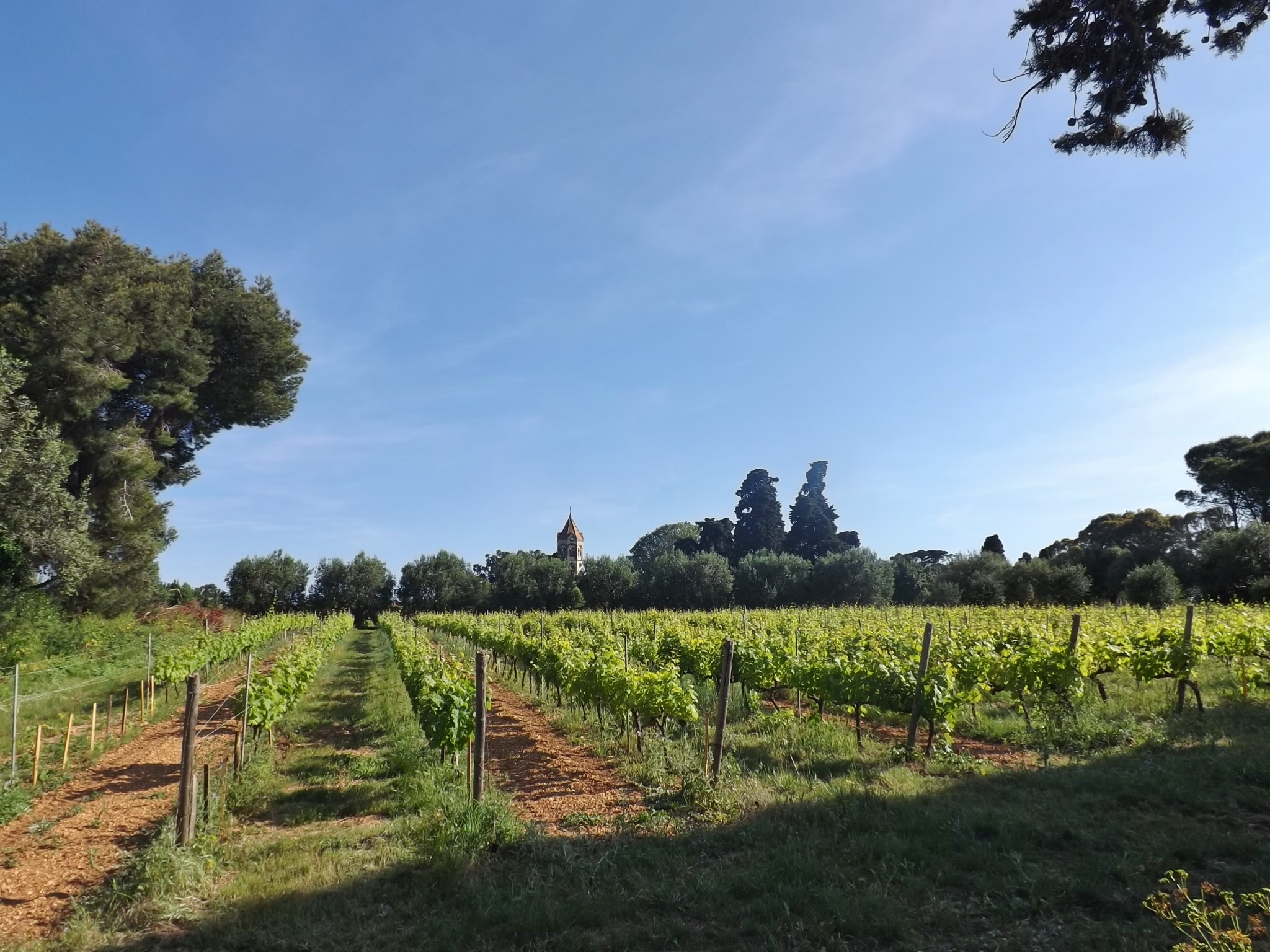 Sight of the vineyards on the île Saint-Honorat island, with the Lérins abbey at the background, in the bay of Cannes, Alpes-Maritimes, France.